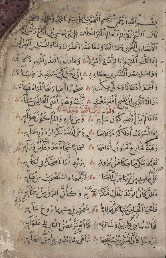 First page of Dīwān Shudhūr al-dhahab min ḥurr al-kalām al-muntakhab fī al-ṣināʽah al-sharīfah fī fann al-salāmah by Ibn Arfaʽ ra’sahu